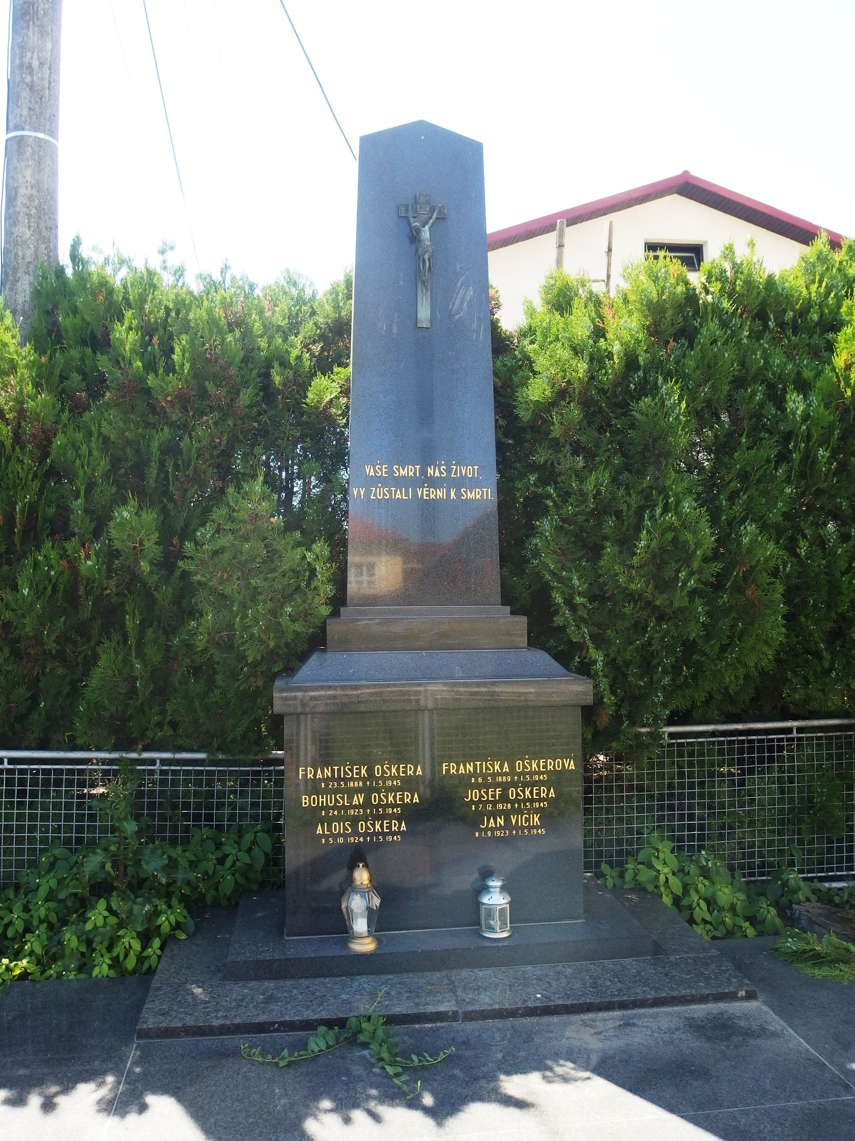 Všemina, Zlín District, Czech Republic.